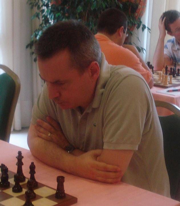 GM Jordi Magem Badals Spain, XXVI Obert Internacional d'Andorra.